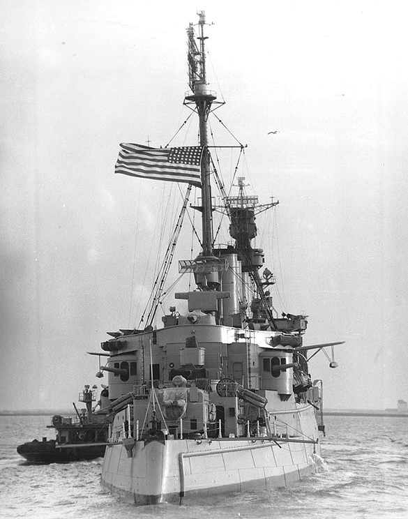 USS Milwaukee (CL-5) Off Lewes, Delaware, on 16 March 1949, just after she was returned to the U.S. Navy by the Soviet Union. She had served as the Soviet Navy ship Murmansk since April 1944. By the time this photograph was taken, Milwaukee had been repainted to remove the Soviet-style white waterline stripe.